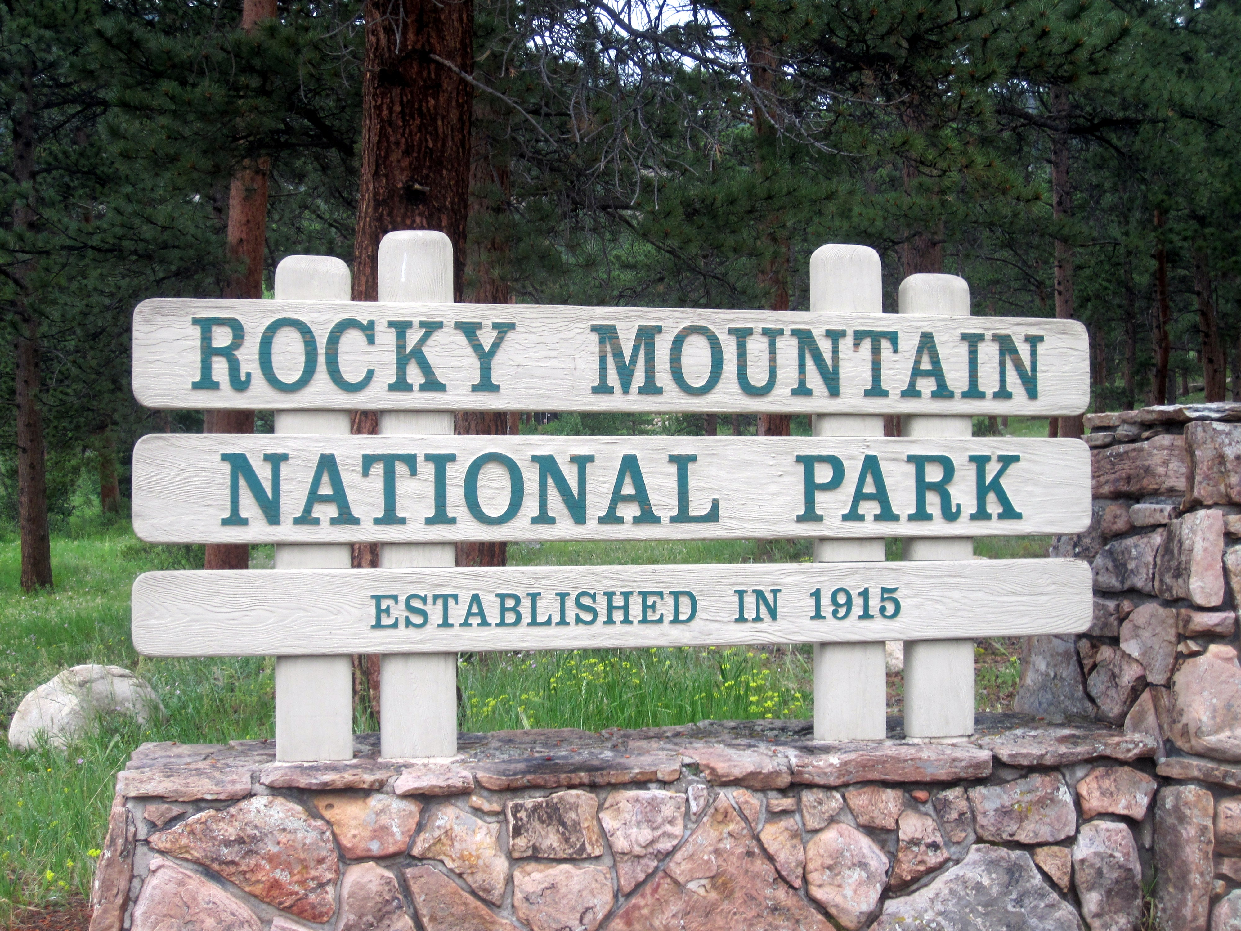 I took photo with Canon camera in RMNP.